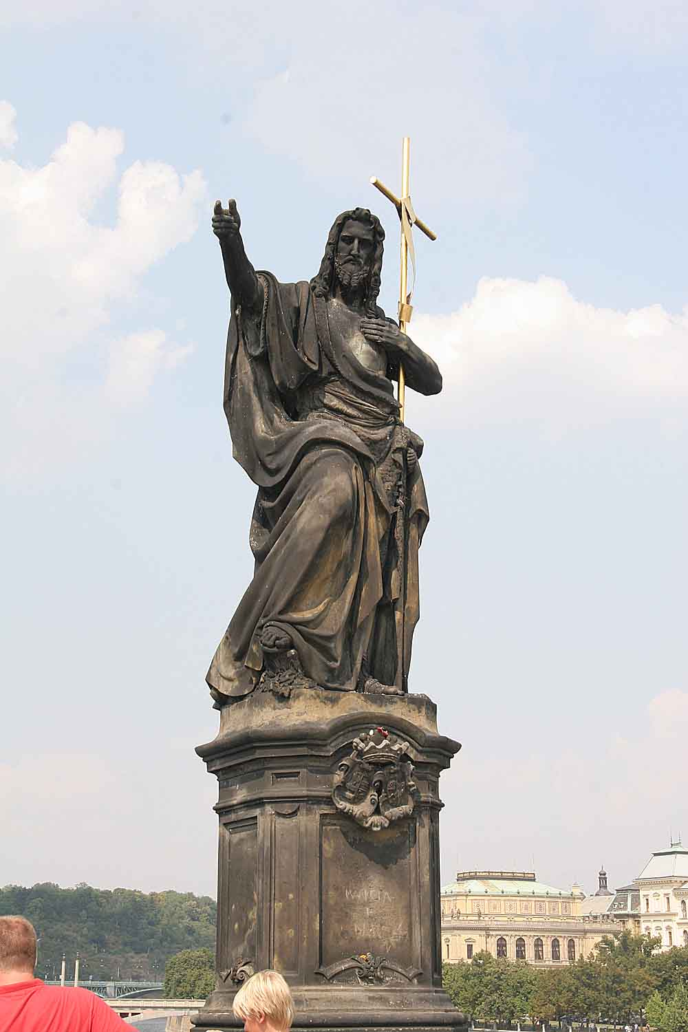 Statue of saint John on Charles Bridge, Prague.